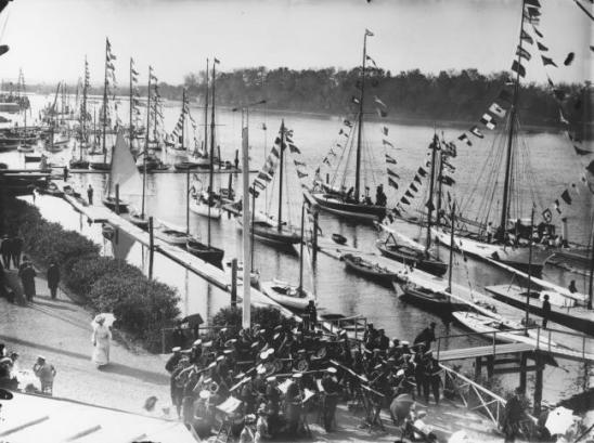 Imperatorsky yacht club in Saint-Petersburg